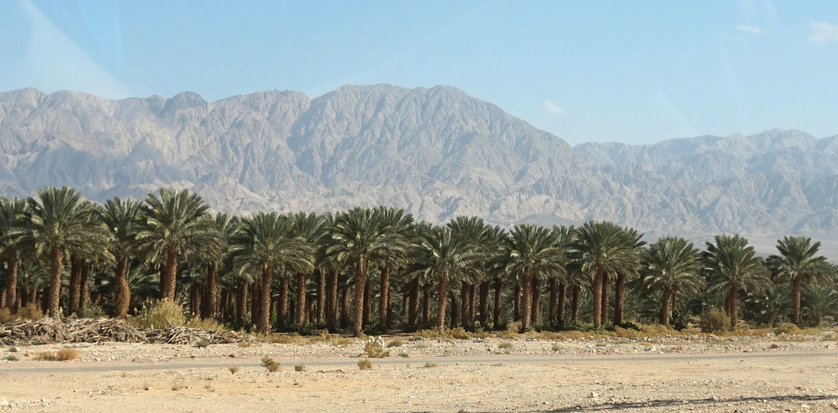 Palm tree farm in Southern Israel.This photograph was taken with a Sony ILCE-5000